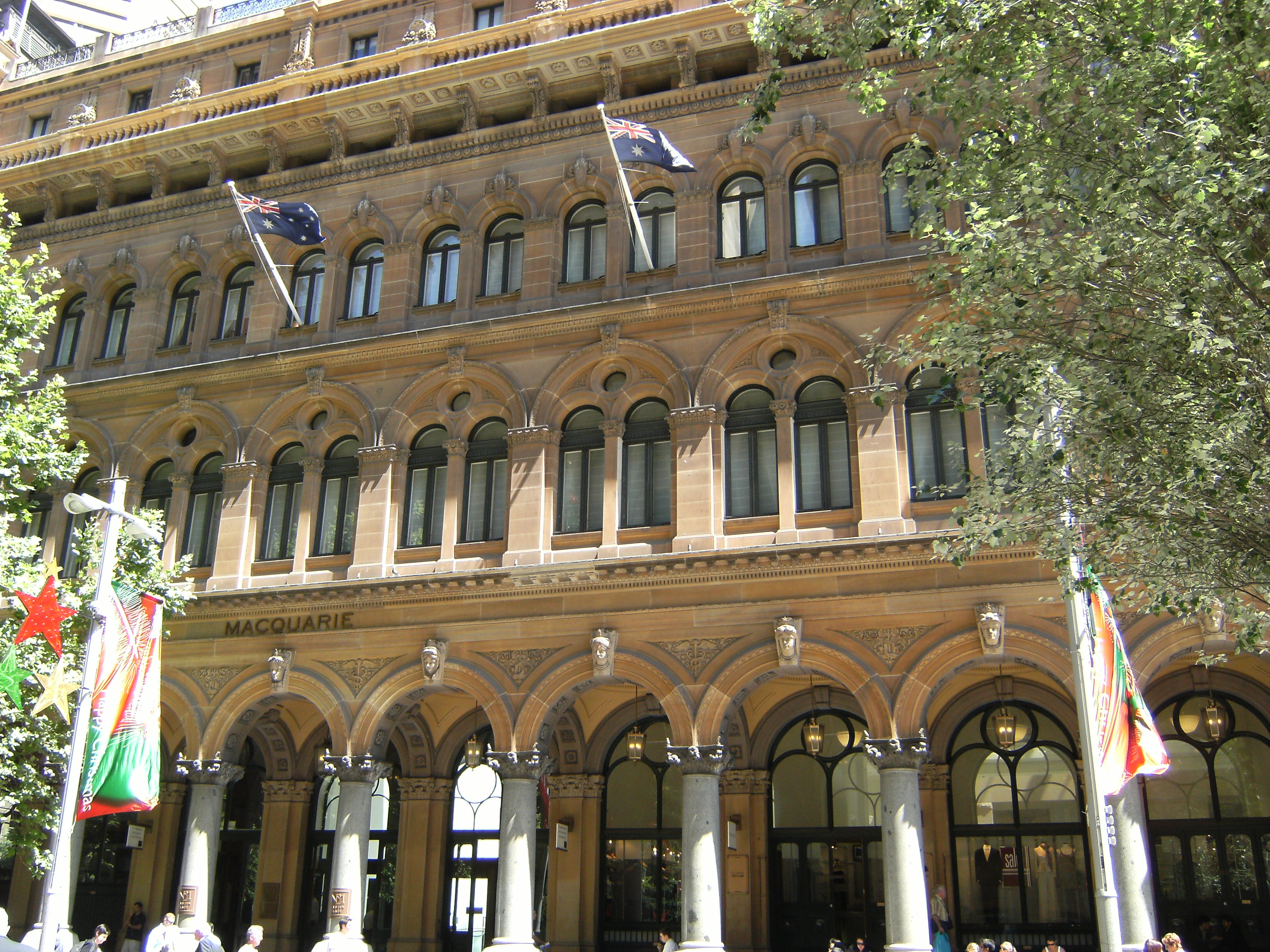 No 1 Martin Place, GPO building, Sydney